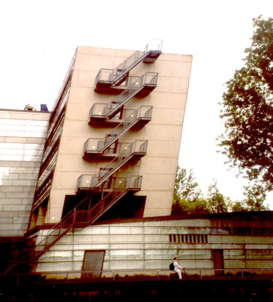 The Oort Building, which houses part of Leiden Observatory, the Lorentz Institute and the Lorentz Centre of Leiden University.